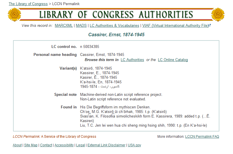 LC Authorities: Screenshot of the website of the Library of Congress (Browser: Chrome, Vers. 19.0).